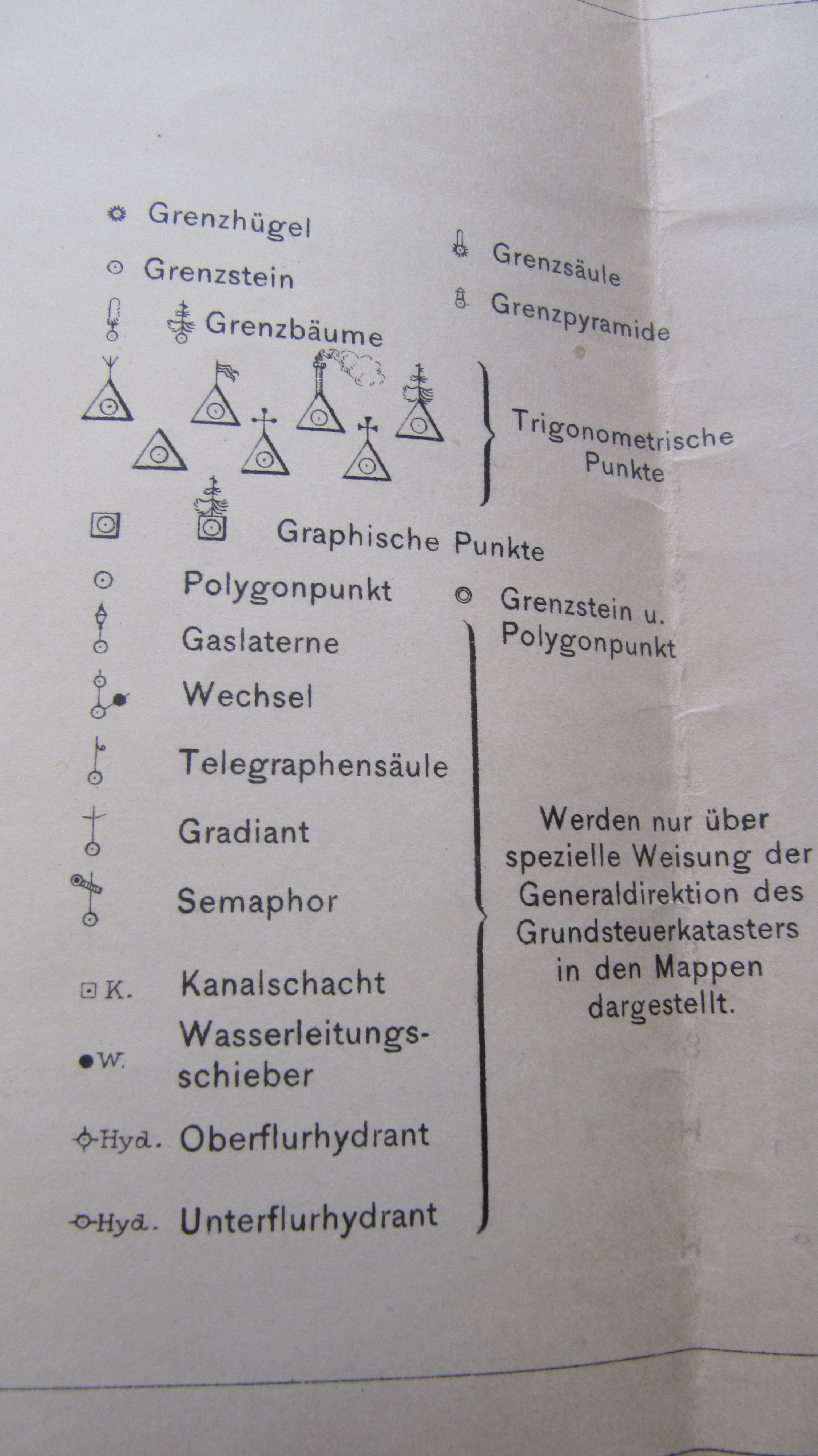 Part of map key for Franciscan cadastral maps. Published in Vorschrift für die Katastralmappen-Archive, Vienna 1912.